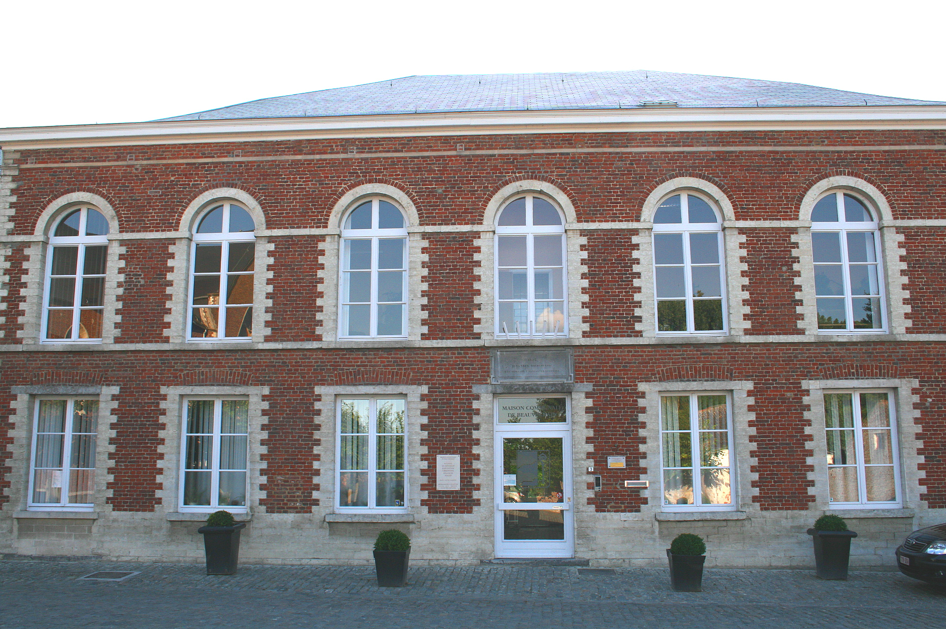 Beauvechain (Belgique), the town-hall.